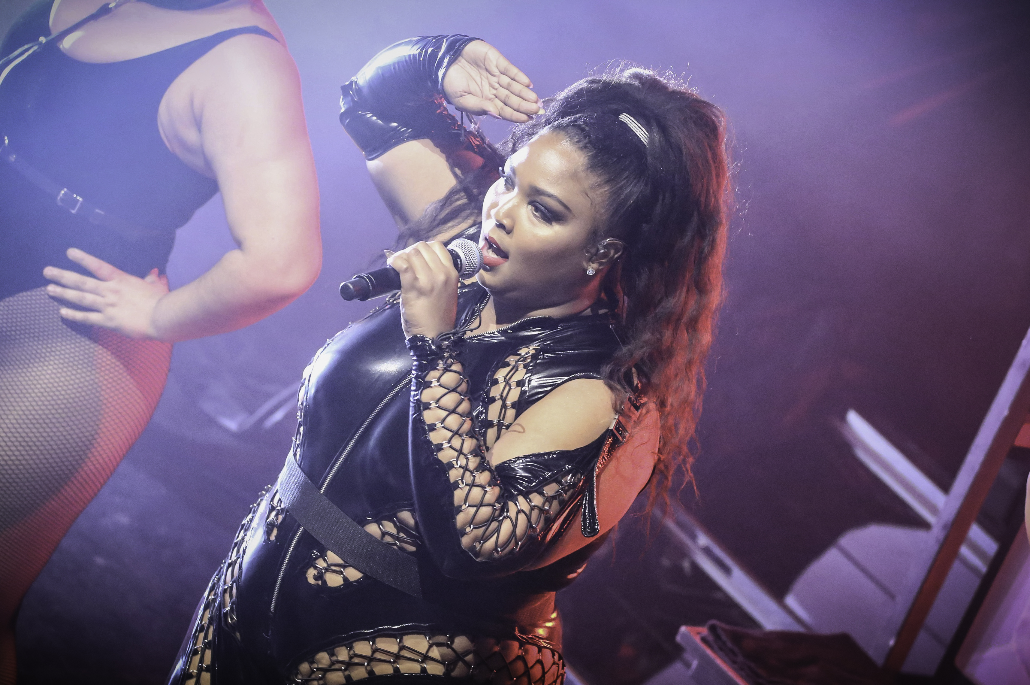 Lizzo - Palace Theatre - St. Paul